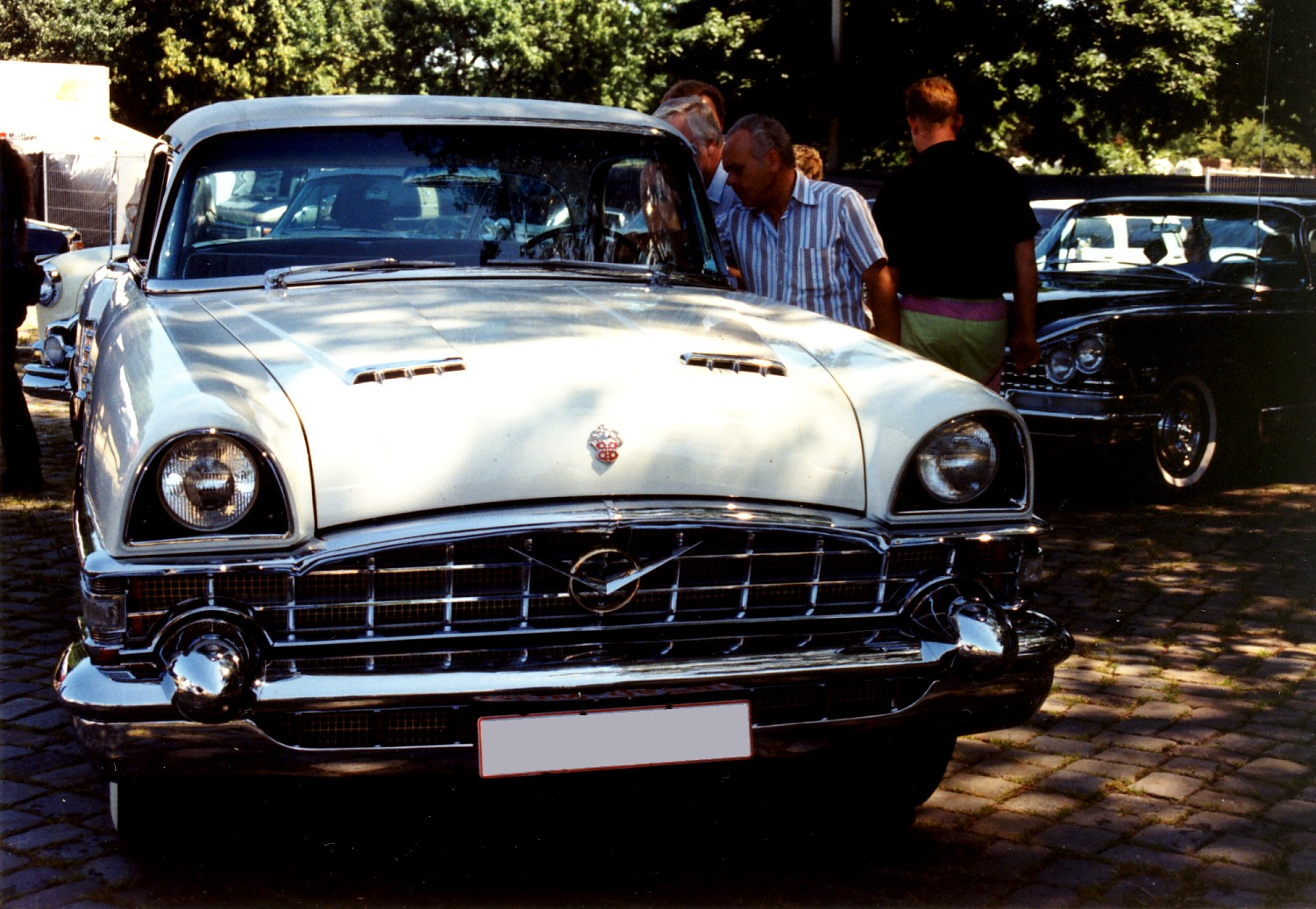 1956 Packard Caribbean Hardtop, 1 of 263, at car-show in Hamburg, Germany